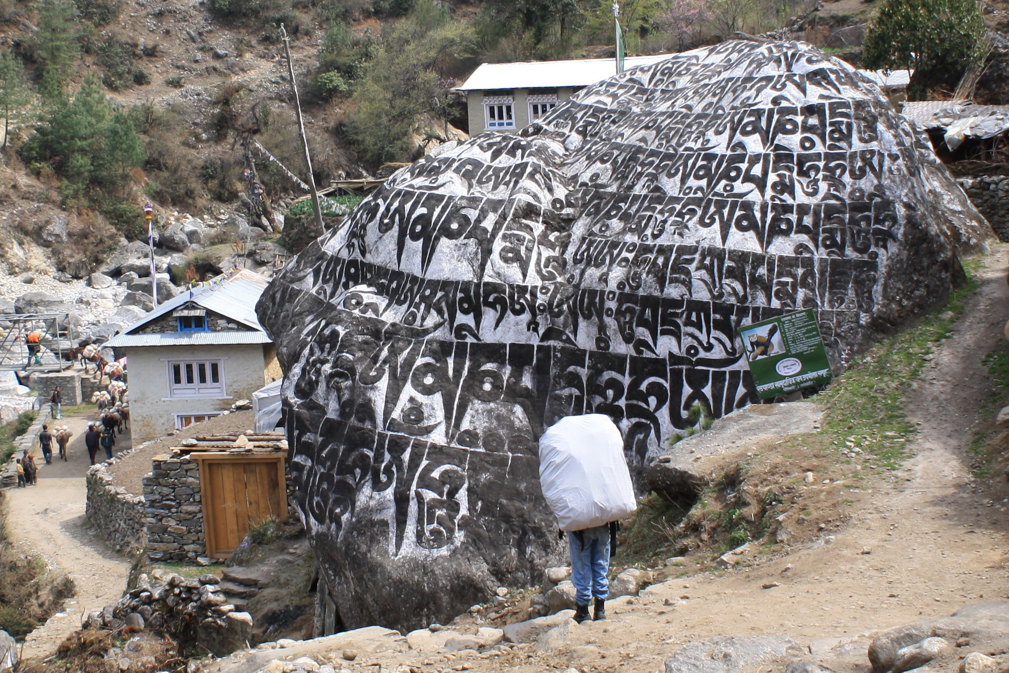 Mani stone near Phakding village, in the trail from Lukla to Namche Bazaar, Nepal.